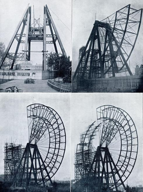 Constructing Big Wheel London